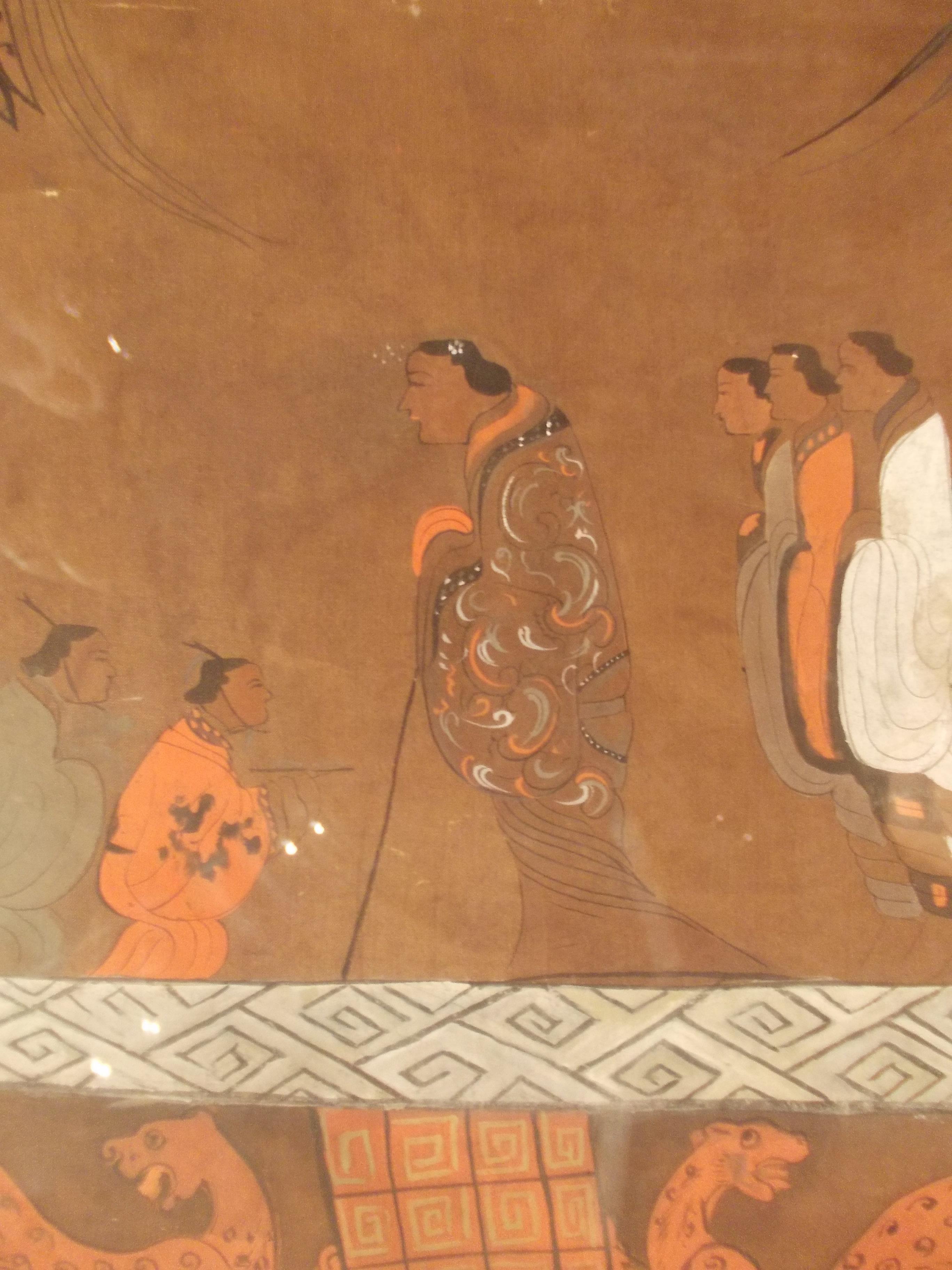 Xin Zhui (Chinese: 辛追), also known as Lady Dai, was the wife of the Marquess Li Cang. Portrait on a silk funeral banner found in her grave at Mawangdui.